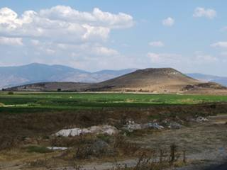 Panaztepe site near Menemen, Turkey where a settlement dating back to the Bronze Age is found.